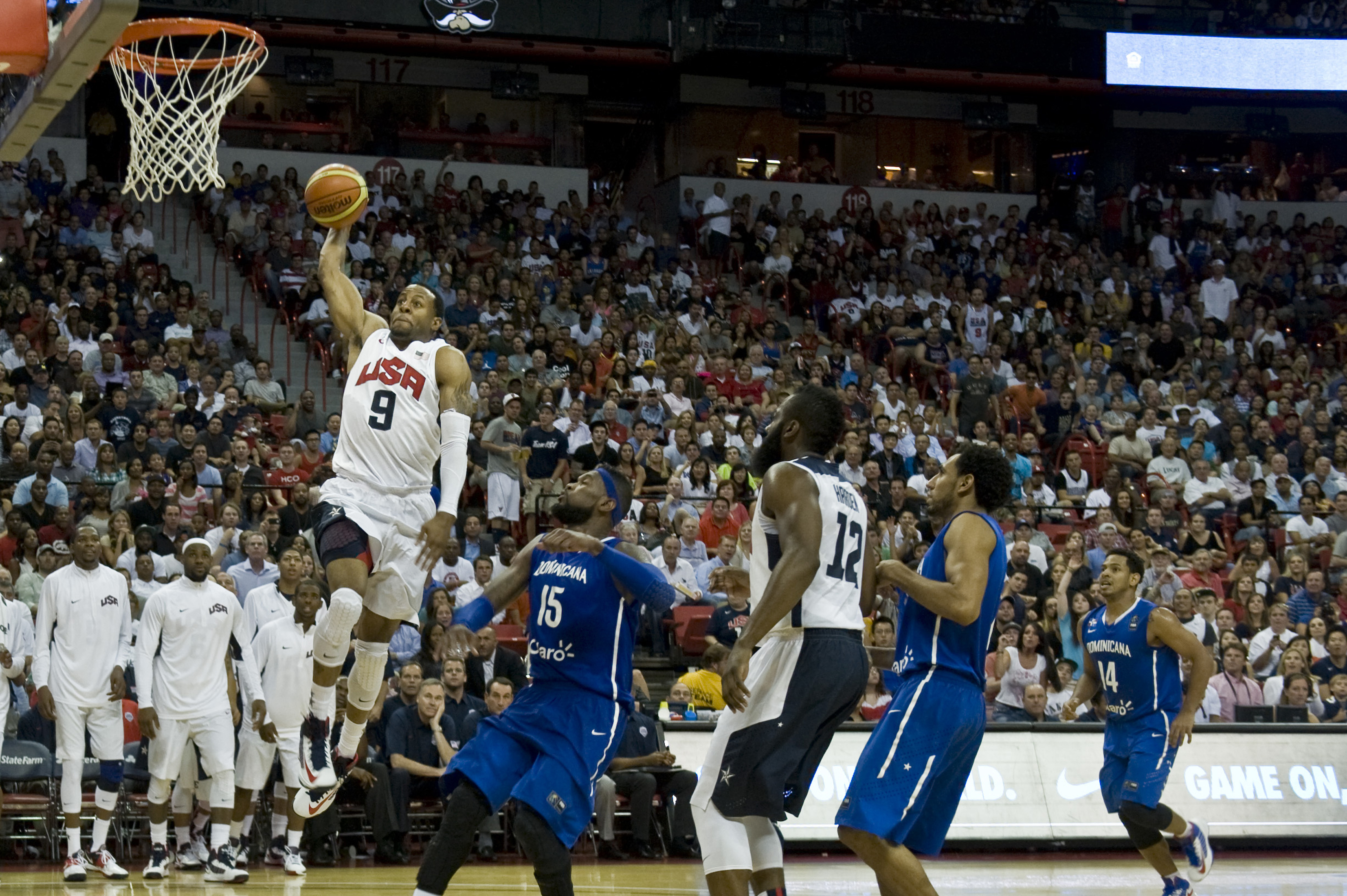 Andrea Iguodala, USA Olympic Men’s Basketball player, goes for a dunk during an exhibition game against the Dominican Republic national team, July 12, 2012, at the Thomas and Mack Center, Las Vegas, Nev. This is Iguodala’s first opportunity to play on the USA Olympic Men’s Basketball team.